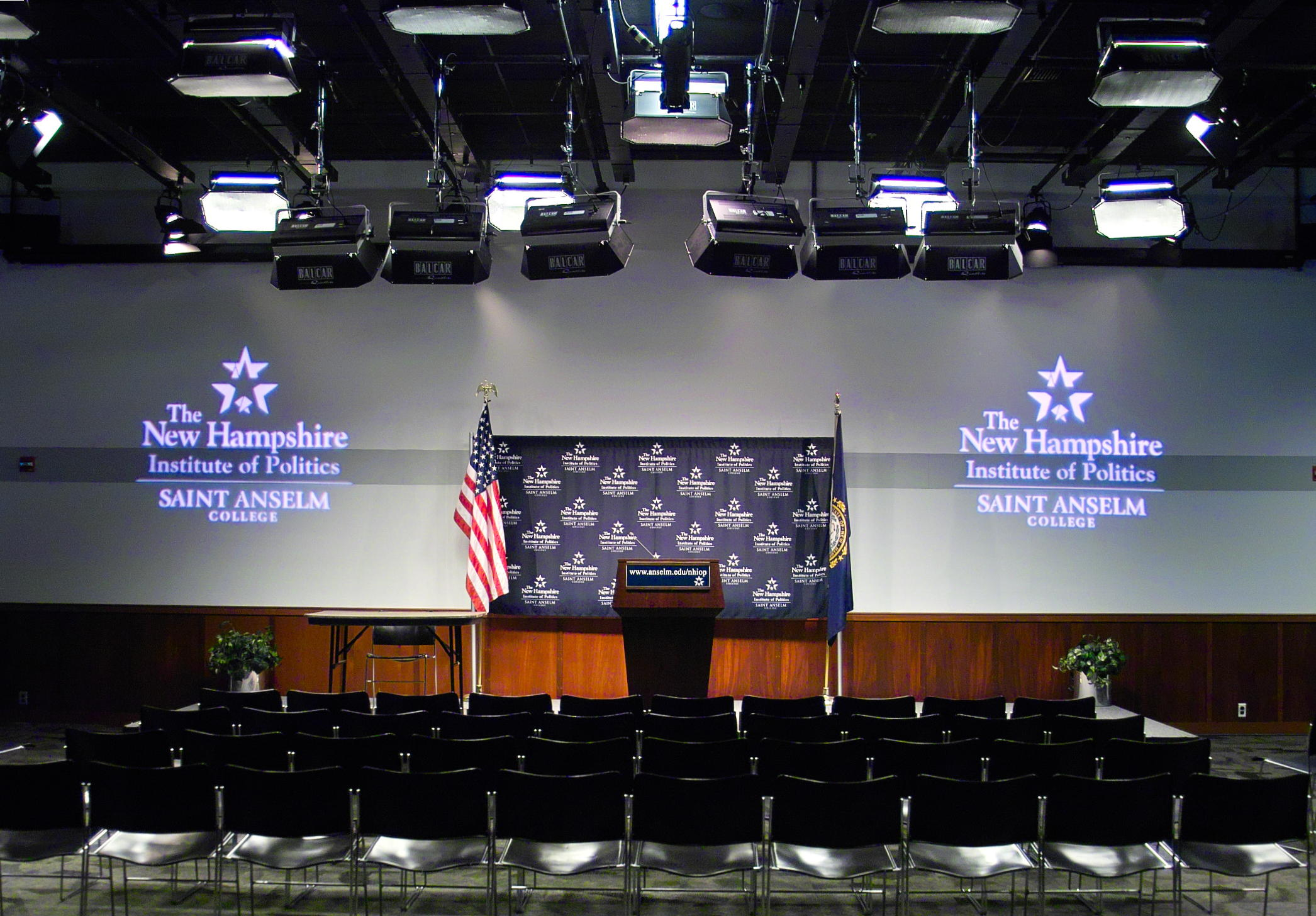 NHIOP 2010